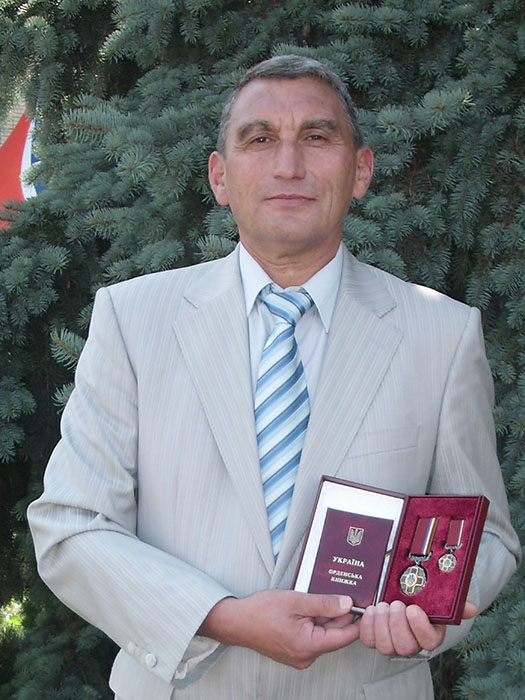 Rustam Akhmetov